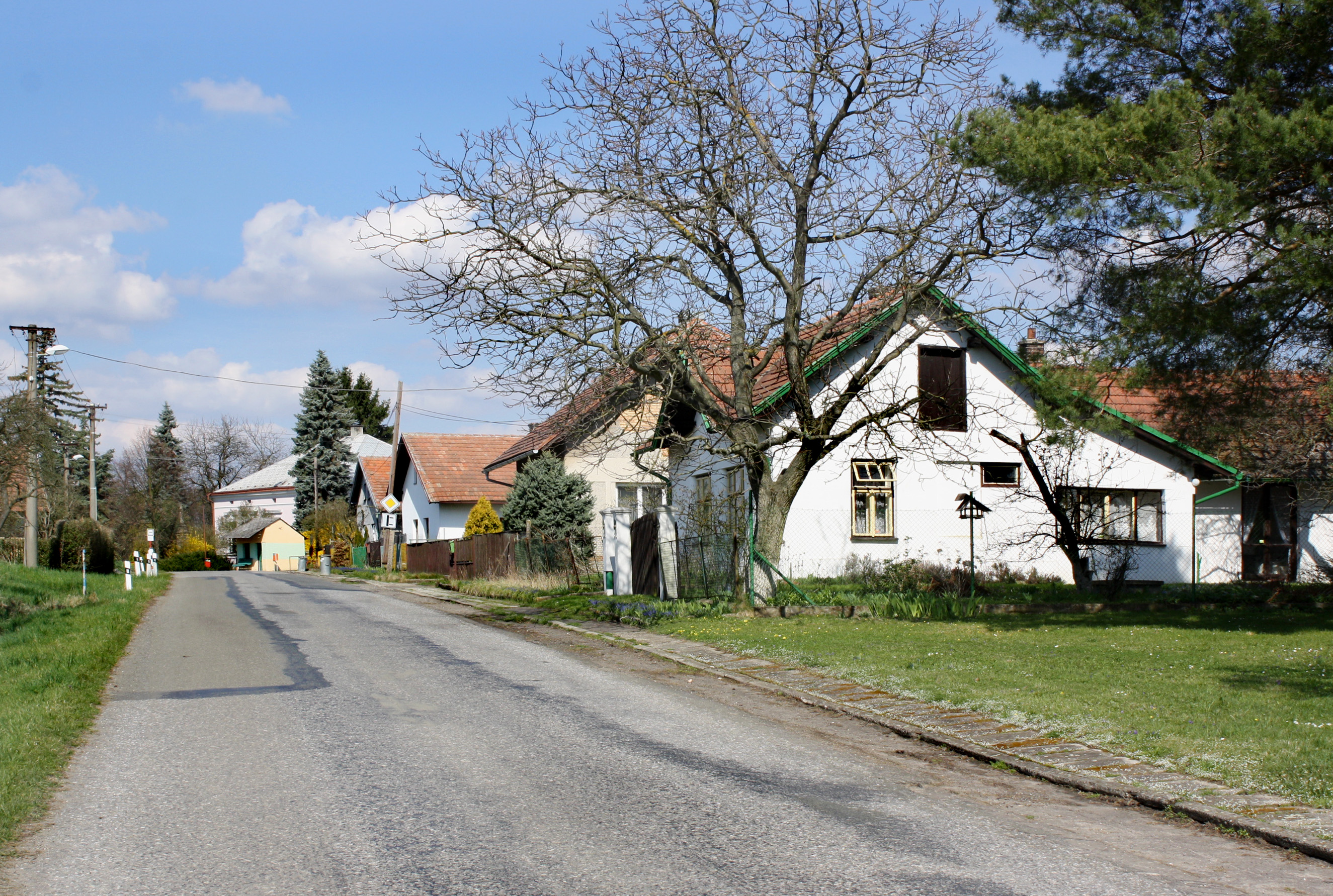 South view of Osek, part of Kněžice village, Czech Republic